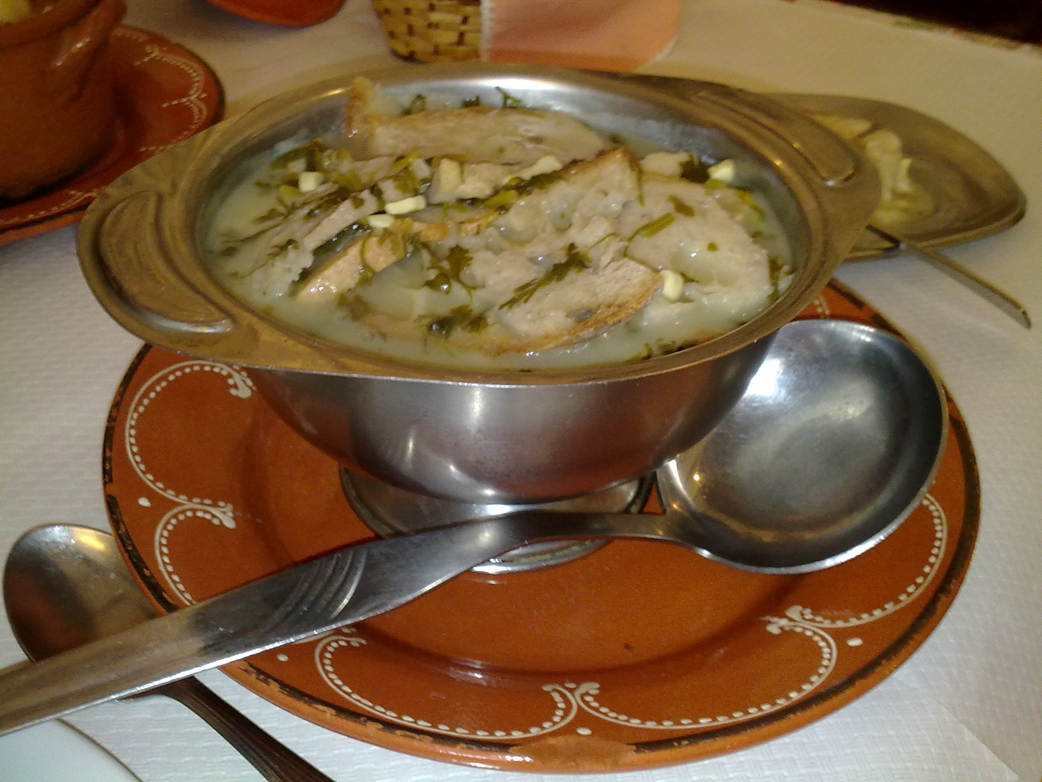 Sopa de cação, a portuguese fish (shark) soup. cação does not mean cocoa in this instance, but rather "shark".